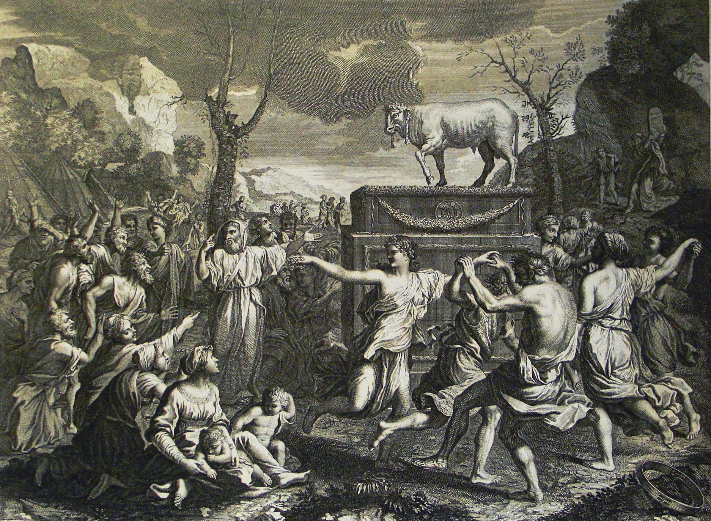 A print from the Phillip Medhurst Collection of Bible illustrations in the possession of Revd. Philip De Vere at St. George’s Court, Kidderminster, England.